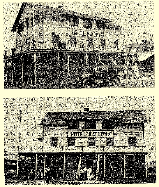 Two images of the Hotel, one spelled Katepwe and one Katepwa